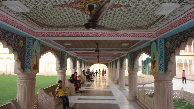 A Beautiful Gallery in temple.